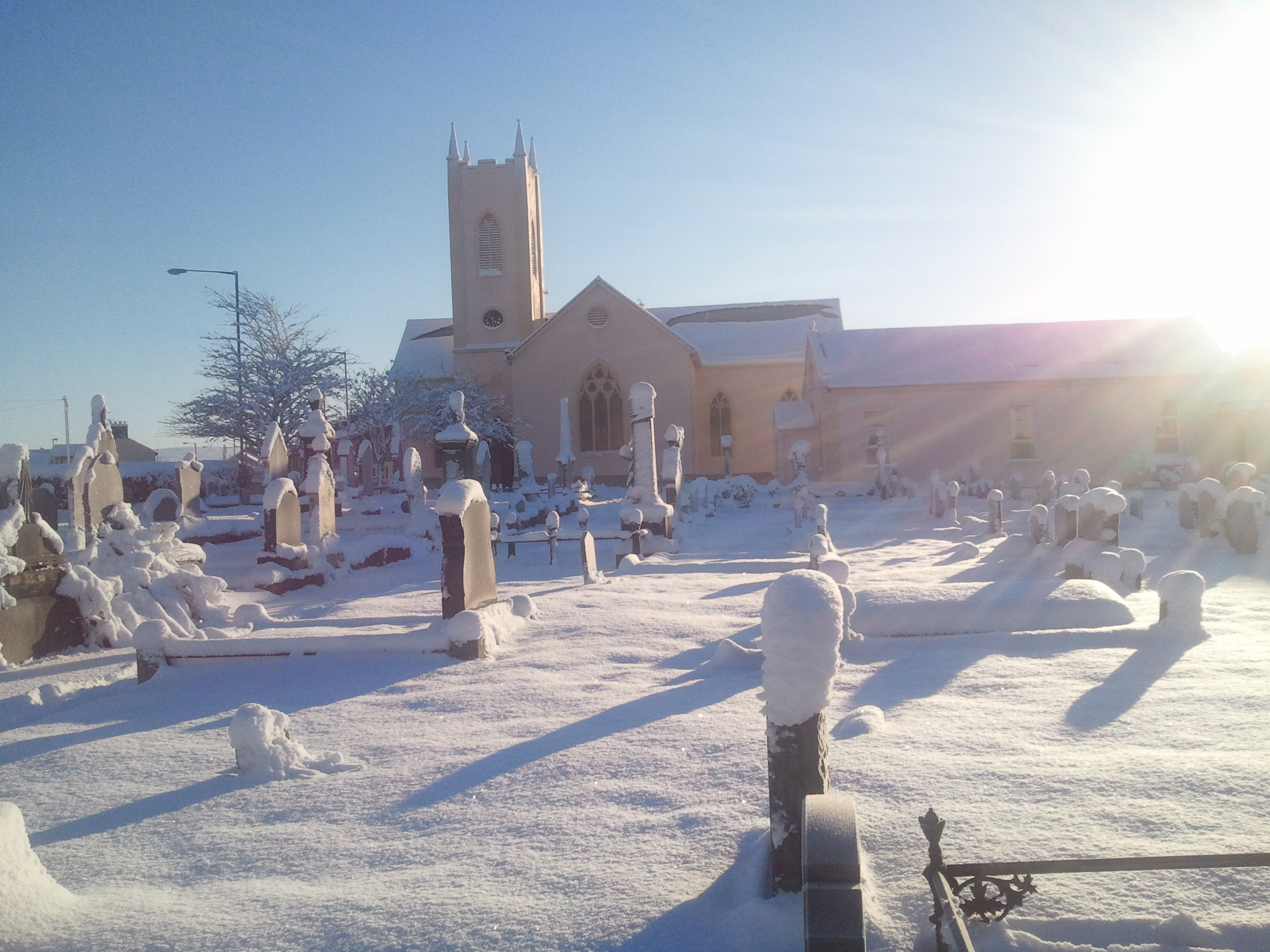 Drumachose Presbyterian Church: from graveyard in December snow.